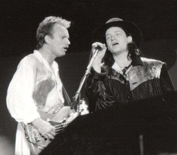 Sting and Bono performing a duet of the Police song, "Invisible Sun" at the Conspiracy of Hope concert on June 15, 1986 in East Rutherford, NJ.